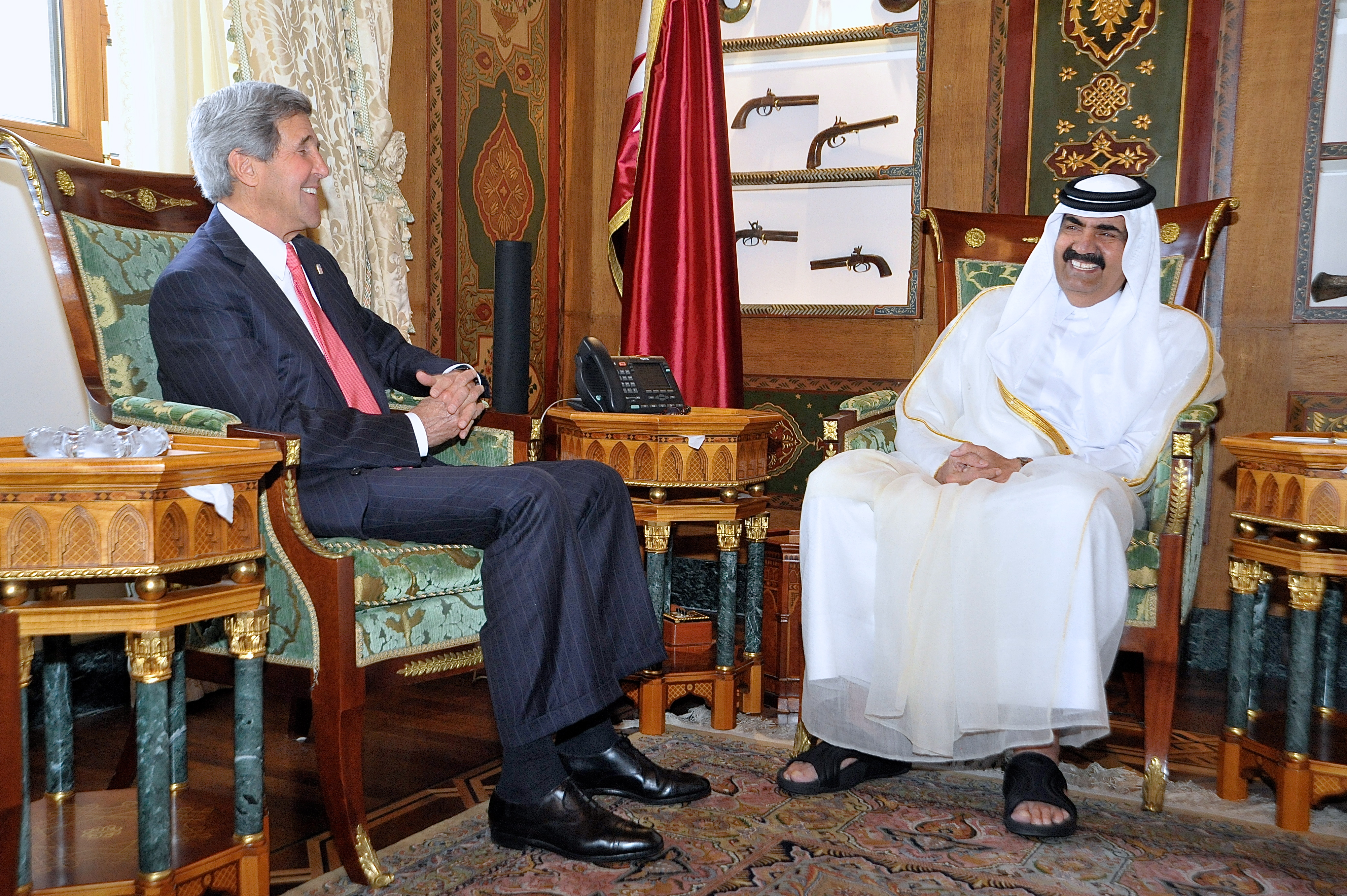 U.S. Secretary of State John Kerry meets with Qatari Amir Hamad bin Khalifa al-Thani in Doha, Qatar, on June 23, 2013. [State Department photo/ Public Domain]